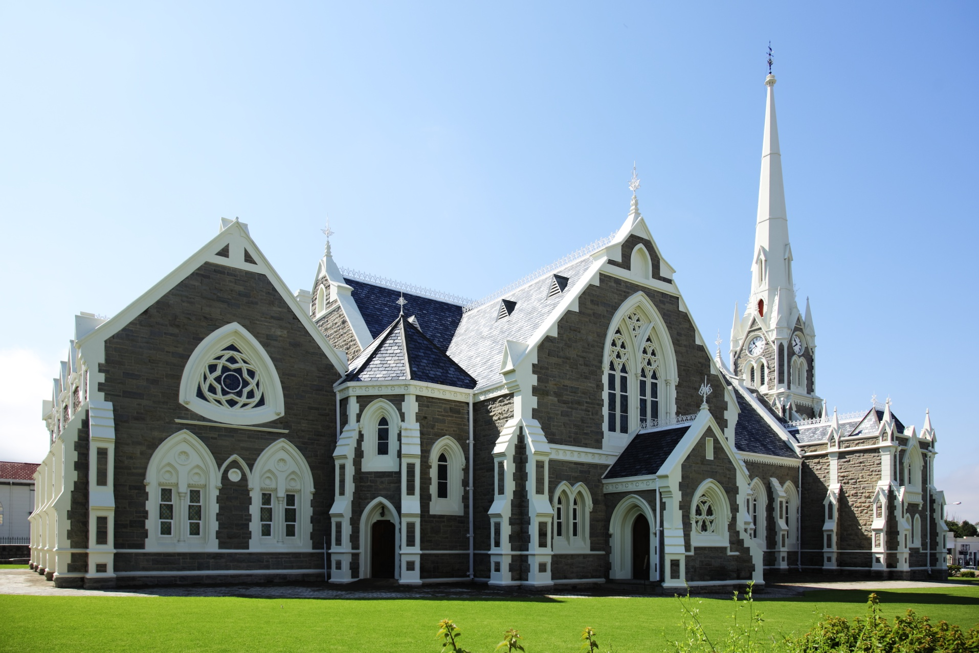 Dutch Reformed Church in Graaff Reinet This media shows a South African Protected Site with SAHRA file reference 9/2/033/0042.